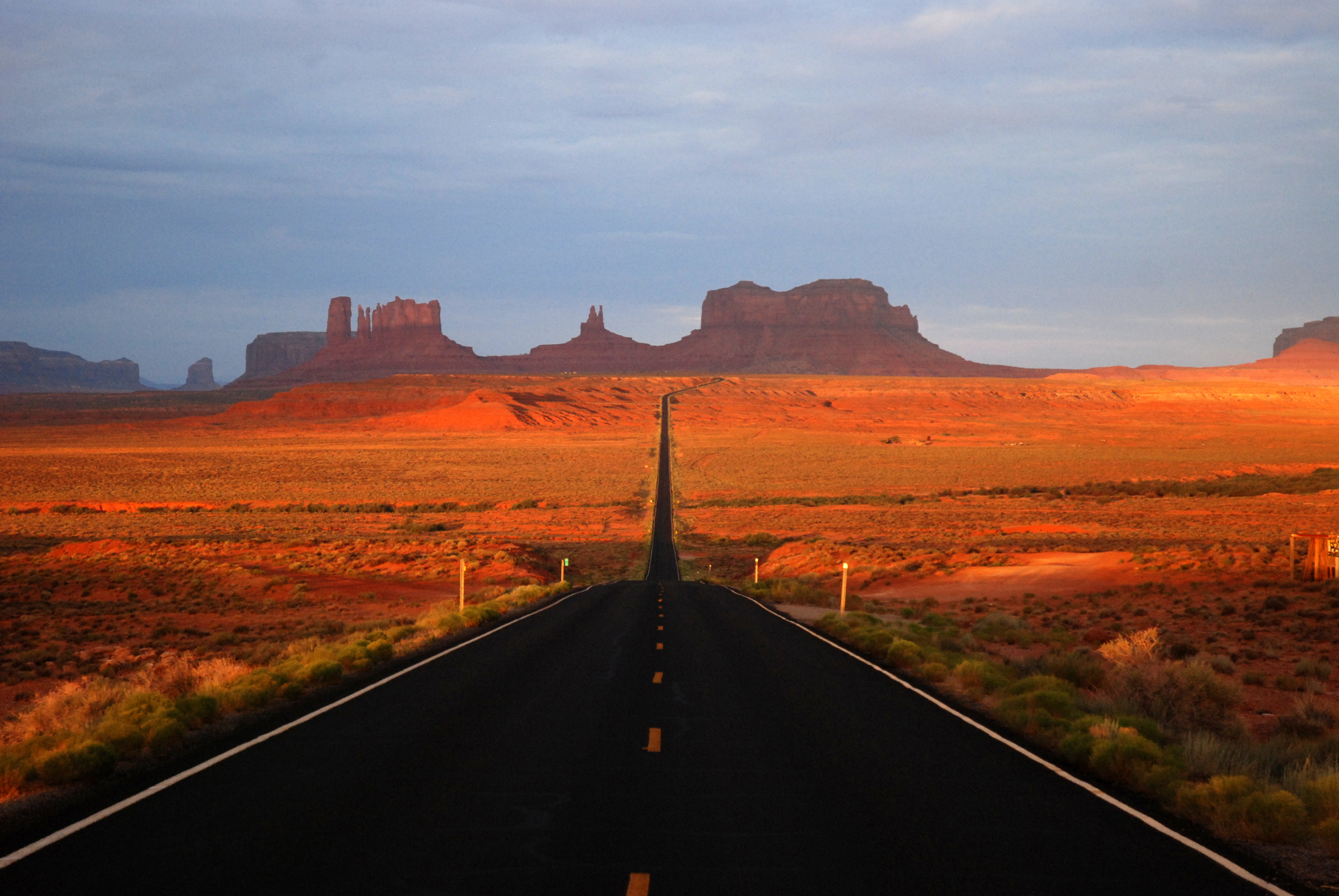 Monument valley sunrise